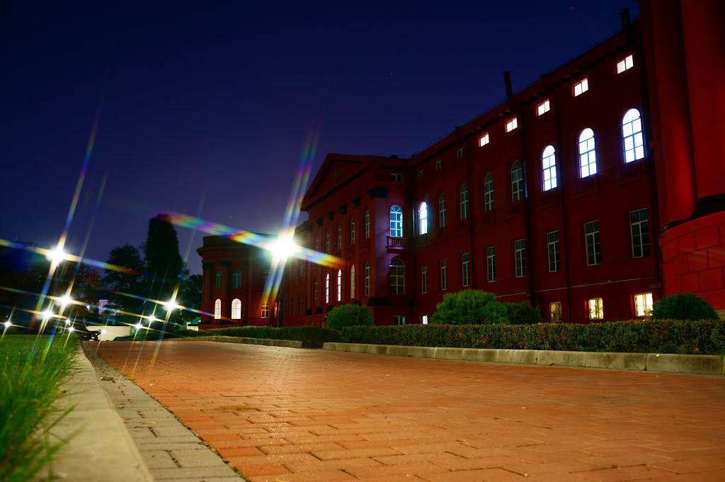 Kiev University building at night